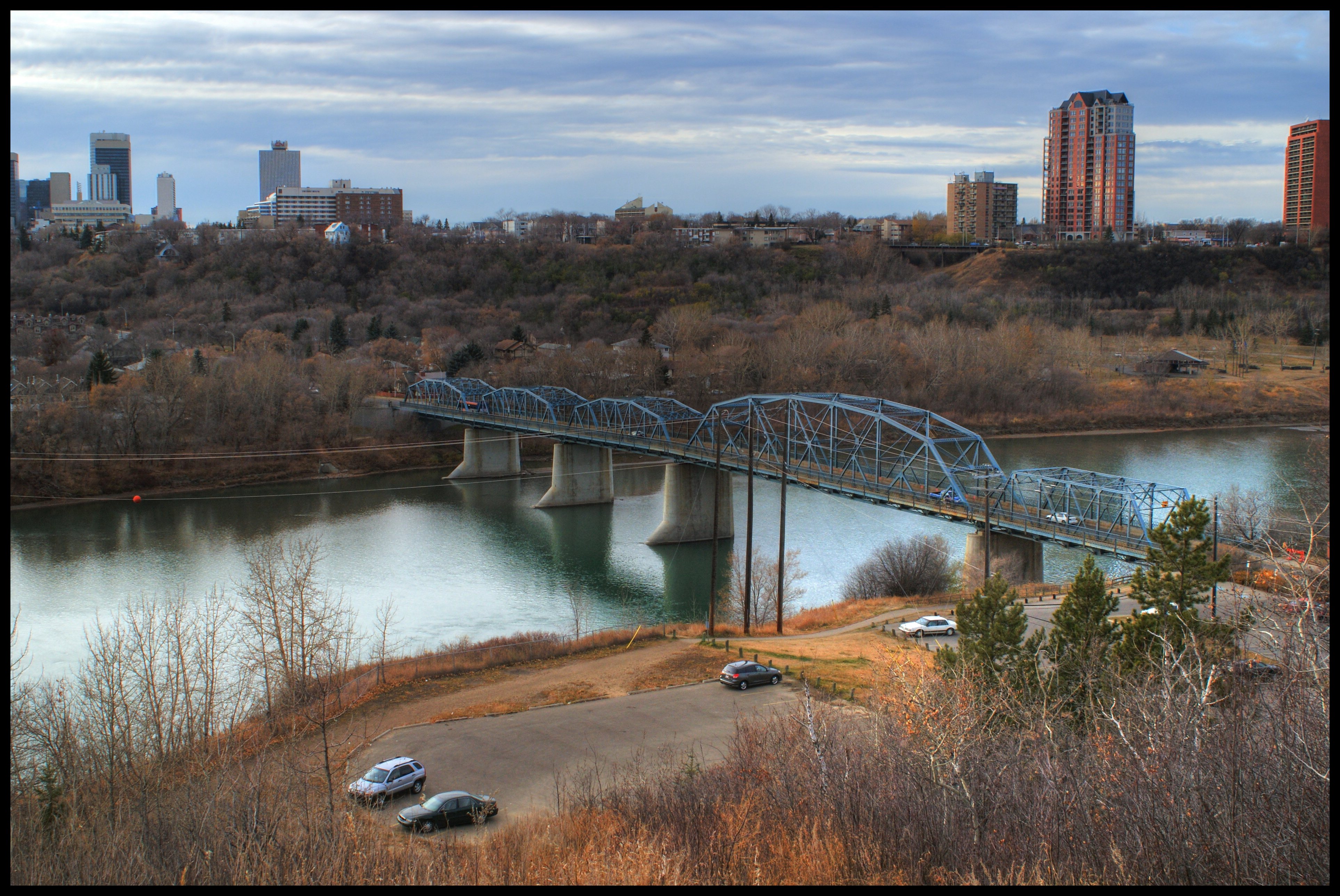 This is the Dawson Bridge in Edmonton, Alberta, Canada. Taken in 2008. Taken by Steven Mackaay